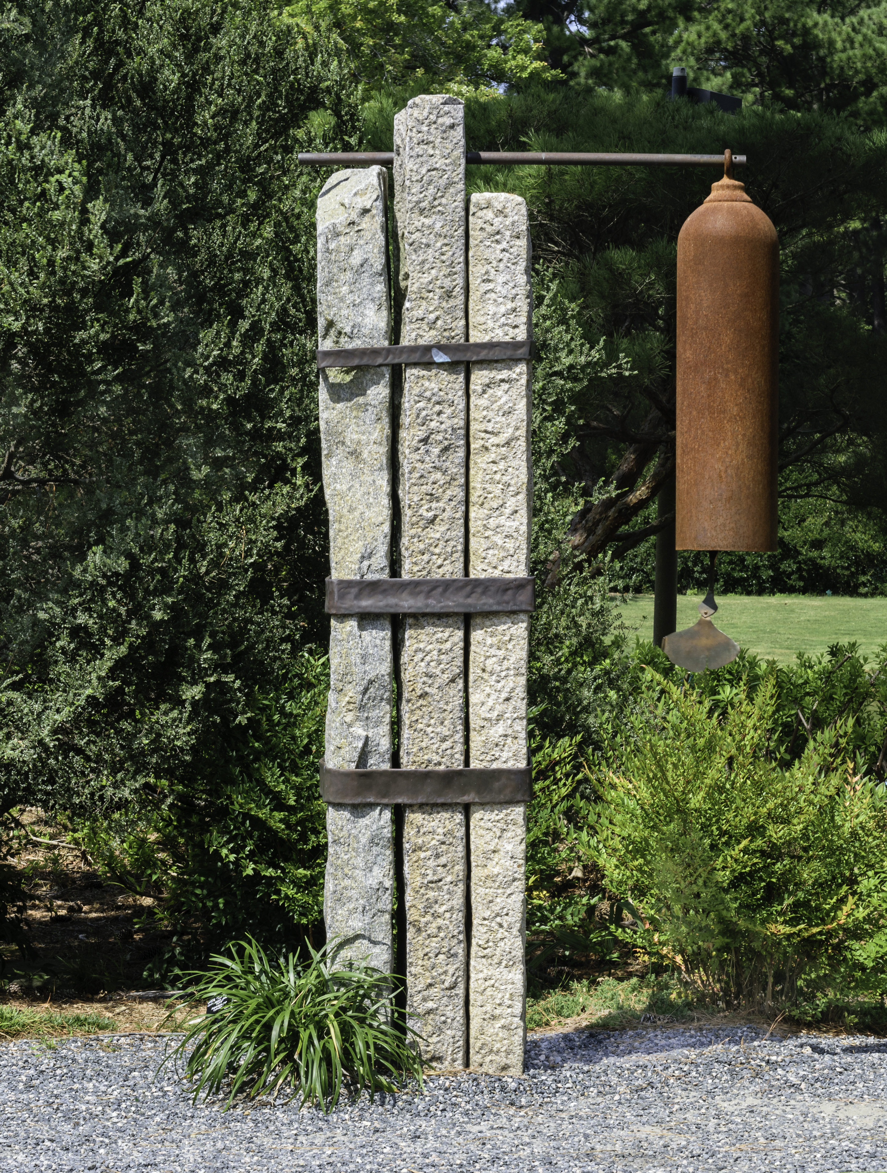 Japanese style bell at the Japanese Garden at Norfolk Botanical Garden, Norfolk, Virginia.